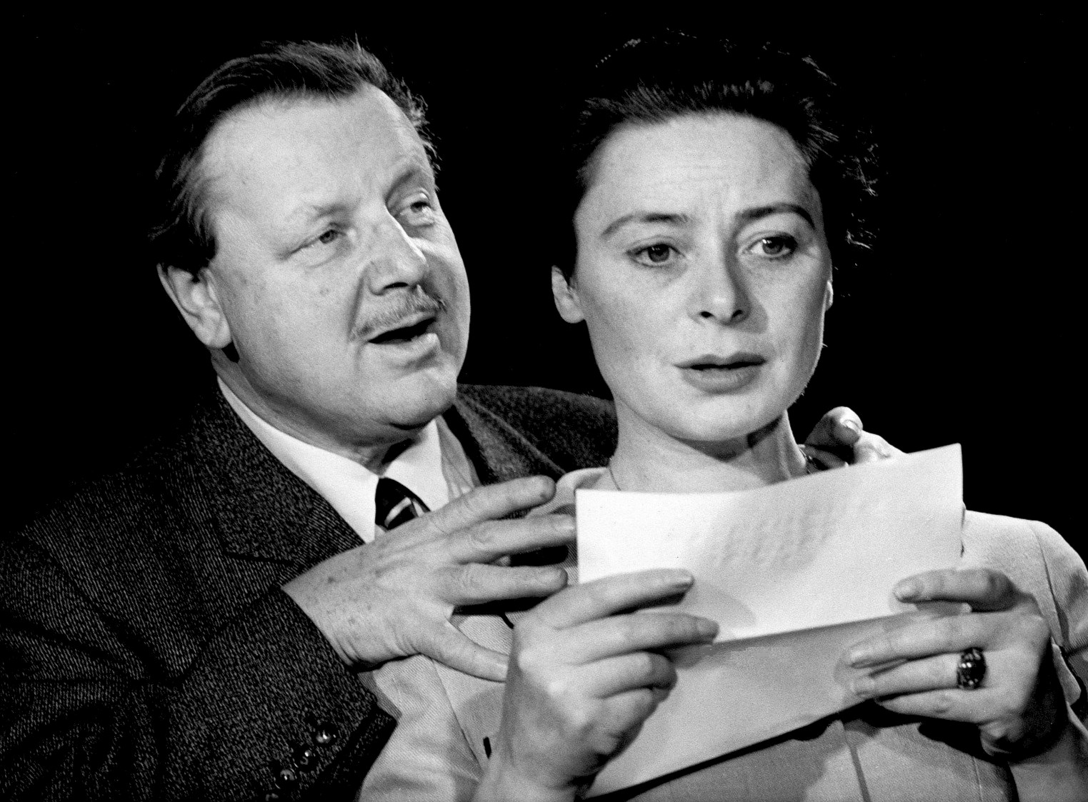 Photo of Walter Slezak and Siobhan McKenna from the 1960 presentation "Woman in White" on the television program Dow Hour of Great Mysteries. There are no copyright marks on the photo as shown in the links above.